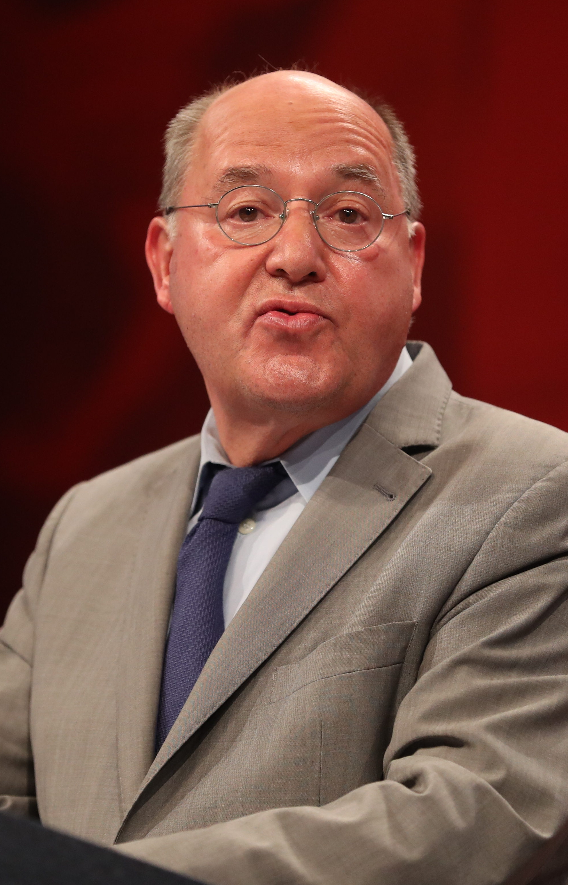 Gregor Gysi at the national convention of Die Linke 2018 in Leipzig